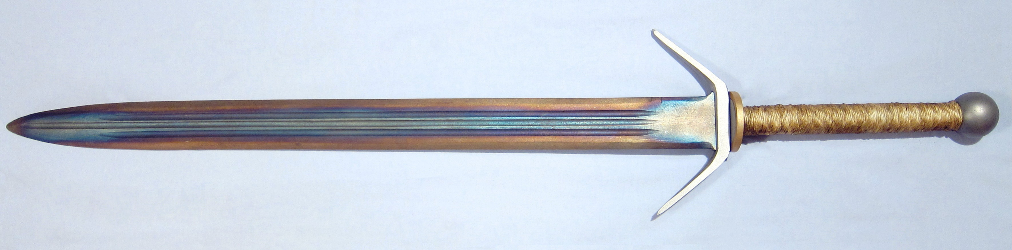 A sword, made from 5160 carbon steel, that has been differentially tempered by first quenching it and then heating it in a localized area to reduce the hardness. The center is tempered to a spring hardness, while the edges are tempered to a very high hardness (slightly higher than a hammer). The sword measures 42 inches overall length, with an unfinished weight of 6.8 lbs. (Estimated weight upon finishing is 4.5 lbs.